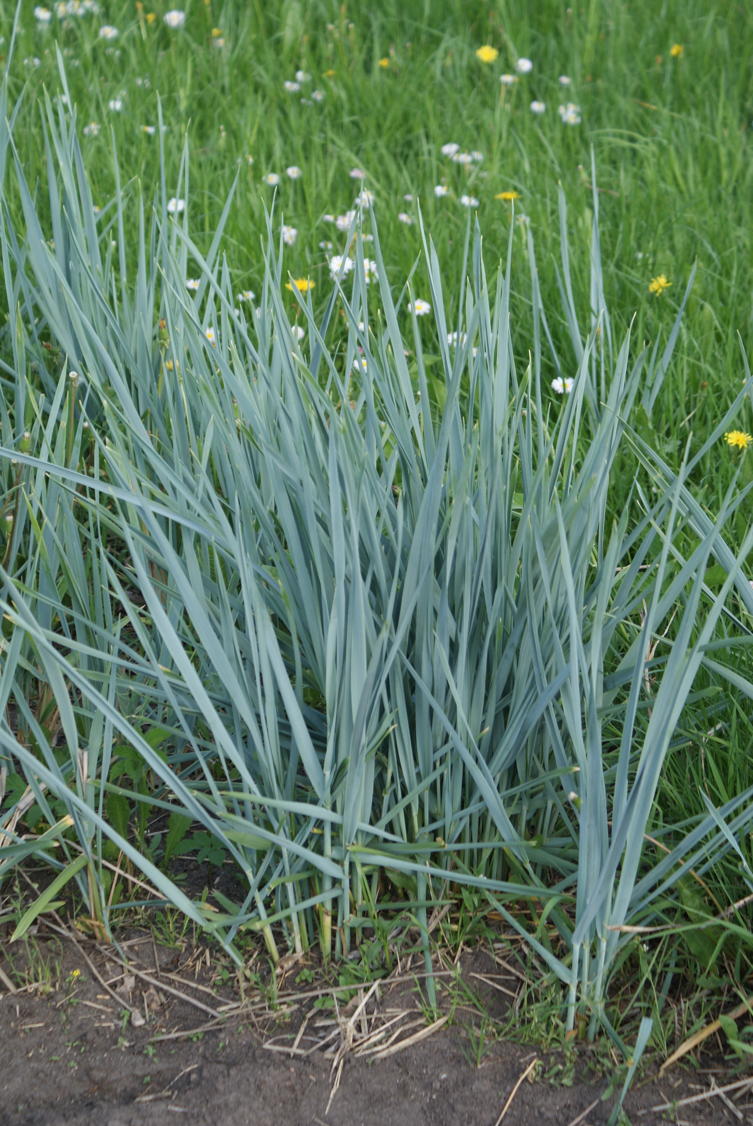 Elymus magellanicus in Botanical garden, Minsk